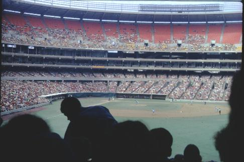 inside Pittsburgh Pirates' stadium